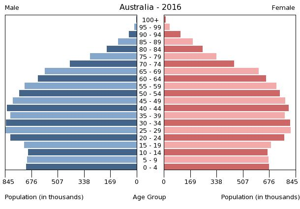 The population pyramid of Australia illustrates the age and sex structure of population and may provide insights about political and social stability, as well as economic development. The population is distributed along the horizontal axis, with males shown on the left and females on the right. The male and female populations are broken down into 5-year age groups represented as horizontal bars along the vertical axis, with the youngest age groups at the bottom and the oldest at the top. The shape of the population pyramid gradually evolves over time based on fertility, mortality, and international migration trends.